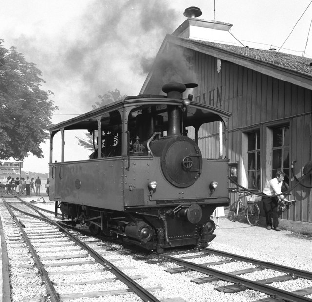 Steam tram engine at Stock